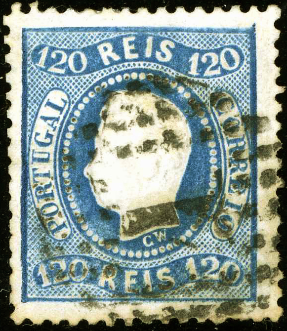 120 Reis Portugal issue November 1867, 1 in oval of points. Yv33 Mi32 blau